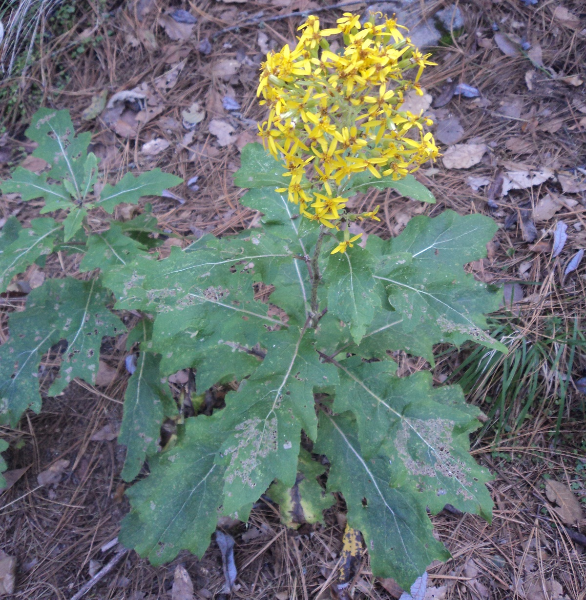 A general view of Roldana candicans, a subalpine shrub from the Mexican highlands, in bloom. Photo taken at cerro El Pinal in Acajete, Puebla. This photo has also been posted on iNaturalist